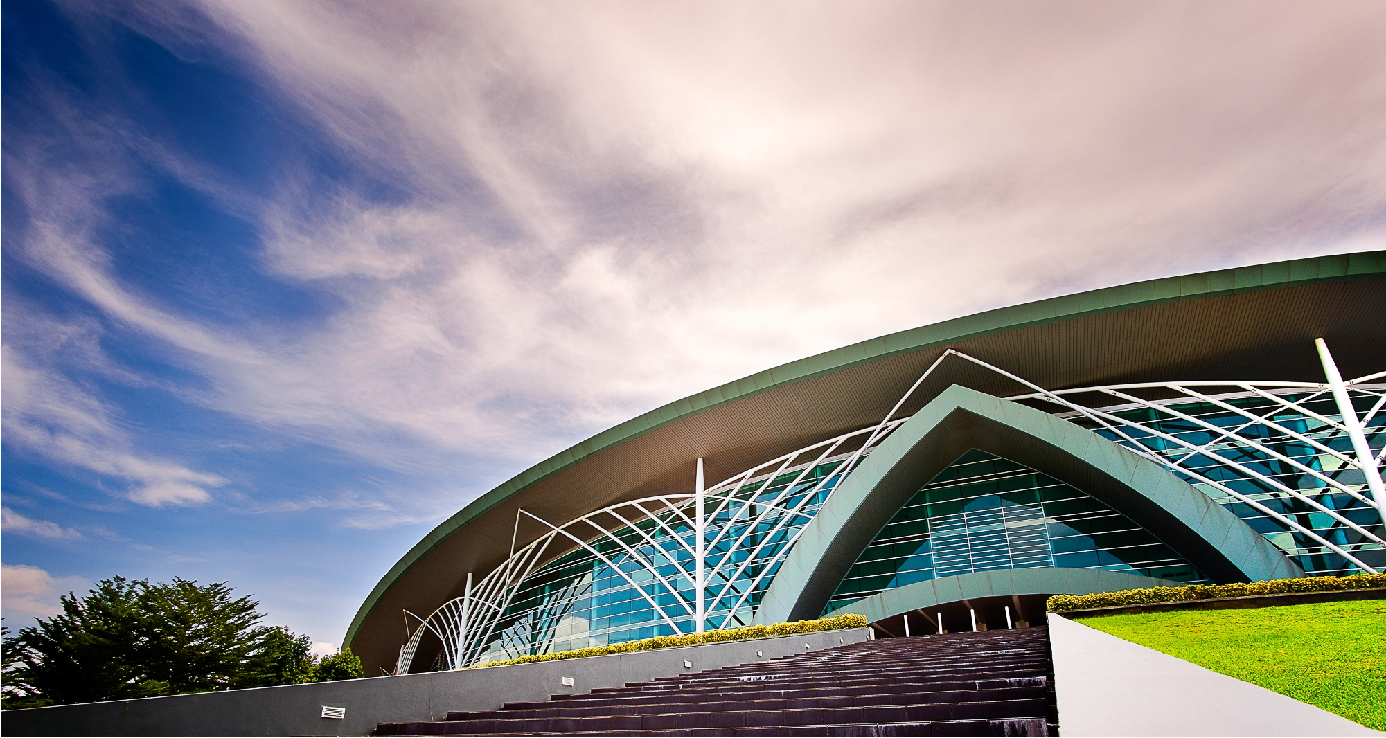 The newly Convention Centre in Kuching, Sarawak, Malaysia.